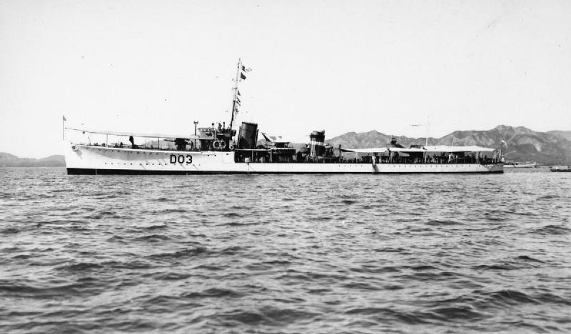 IWM caption : "The Admiralty S Class destroyer HMS SEPOY on the China Station whilst serving with the 8th Destroyer Flotilla."